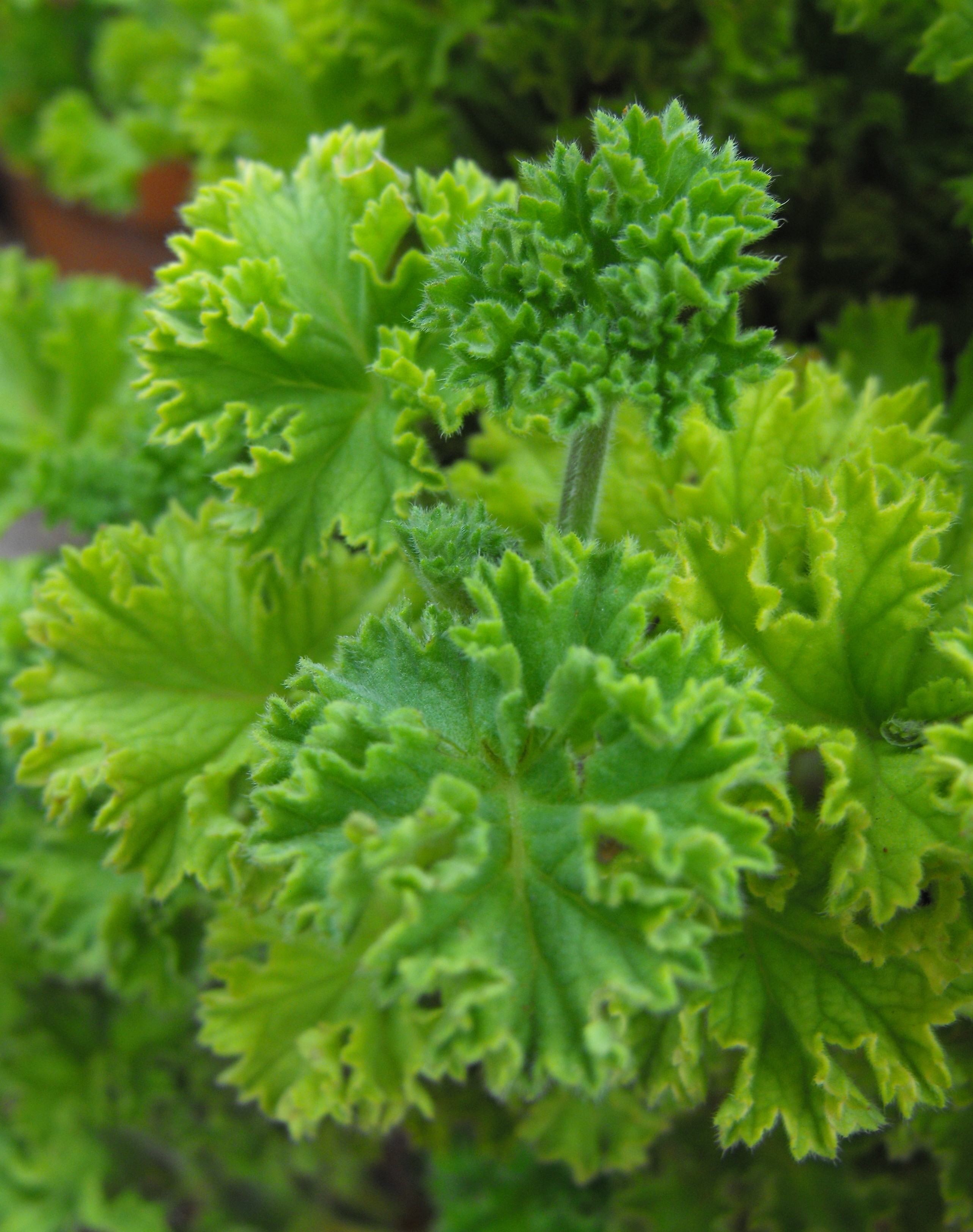 Pelargonium citronellum 'Mabel Gray' in the Botanical Bldg., Balboa Park, San Diego, California, USA.